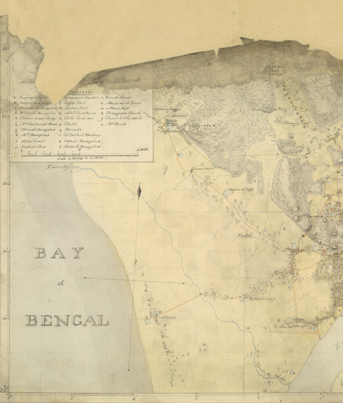 Pen-and-ink and water-colour fragment of a map of Chittagong by John Cheape(1792-1875) in 1818. Chittagong, located in Bangladesh at the point where the Karnaphuli River empties into the Bay of Bengal, is a significant port and has been used for centuries by Arakanese, Arab, Persian, Portuguese and Mughal sailors. Under the Portuguese in the 16th century the town was known as Porto Grande and became an important trading centre. It was captured by the Nawab of Bengal in 1666 and fell to the East India Company in 1760; 60 years later it was claimed by the emperor of Burma (now known as Myanmar) and this led to conflict between Burma and the United Kingdom in 1824.